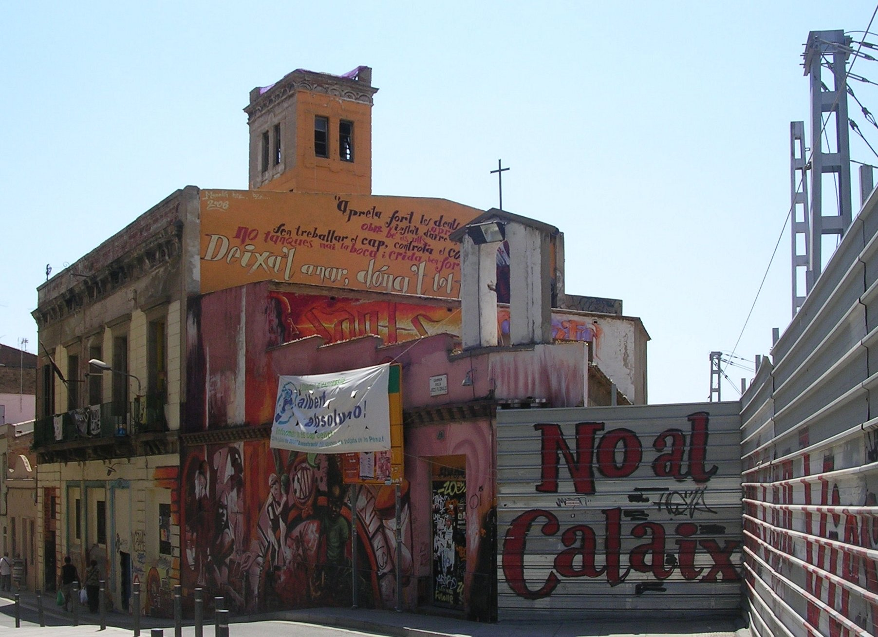 occupied house "Can Vies" in Barcelona-Sants